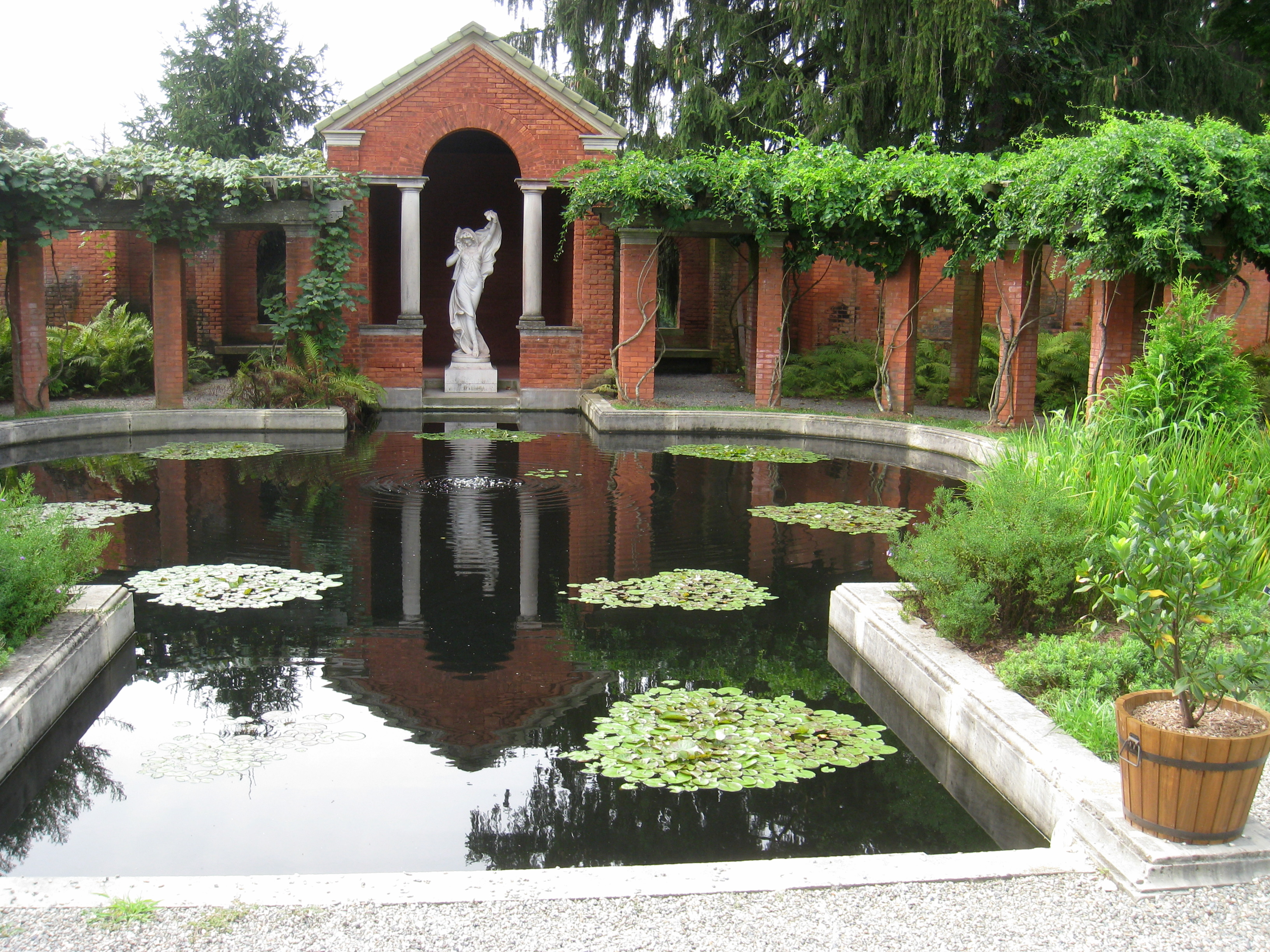 Garden pond and pergola at the Vanderbilt Mansion. Located at the Vanderbilt Mansion National Historic Site, 4097 Albany Post Road, in Hyde Park, New York. Designed for Frederick W. Vanderbilt (1856–1938) - architecture by by McKim, Mead & White - and built between 1896–1899. Historic house museum and gardens maintained by the U.S. National Park Service.